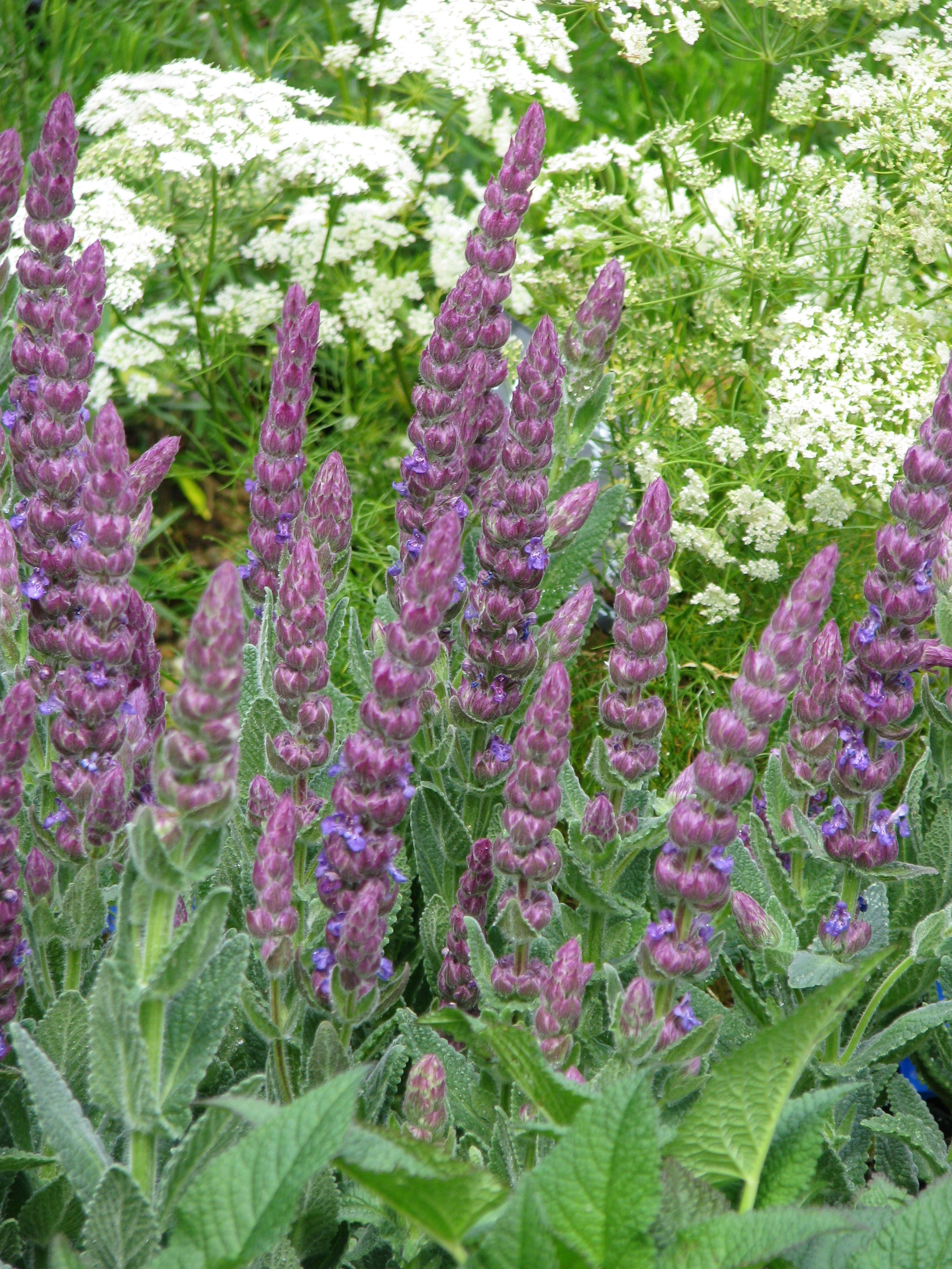 Nepeta tuberosa